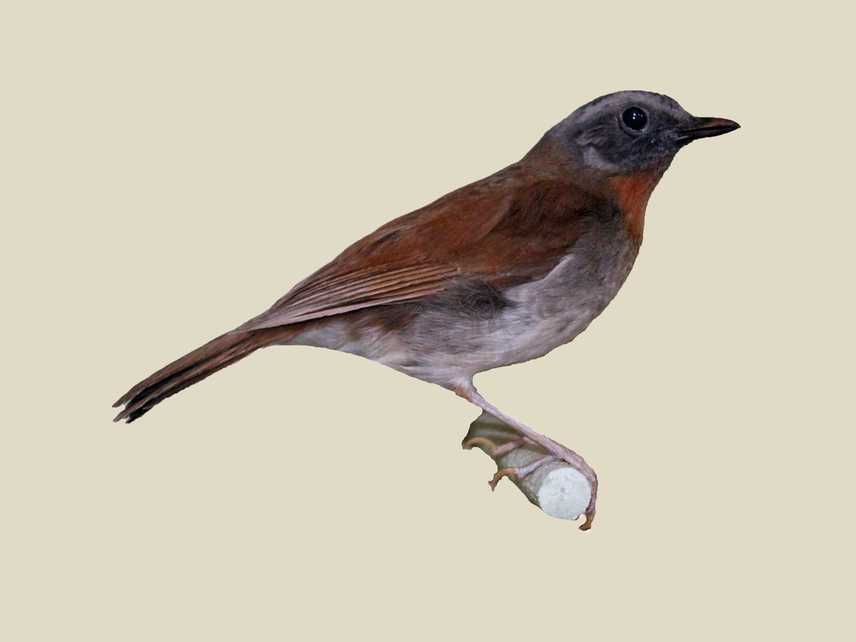 Red-throated Alethe (Pseudalethe poliophrys). Photograph of a specimen at Nairobi National Museum in Nairobi, Kenya.